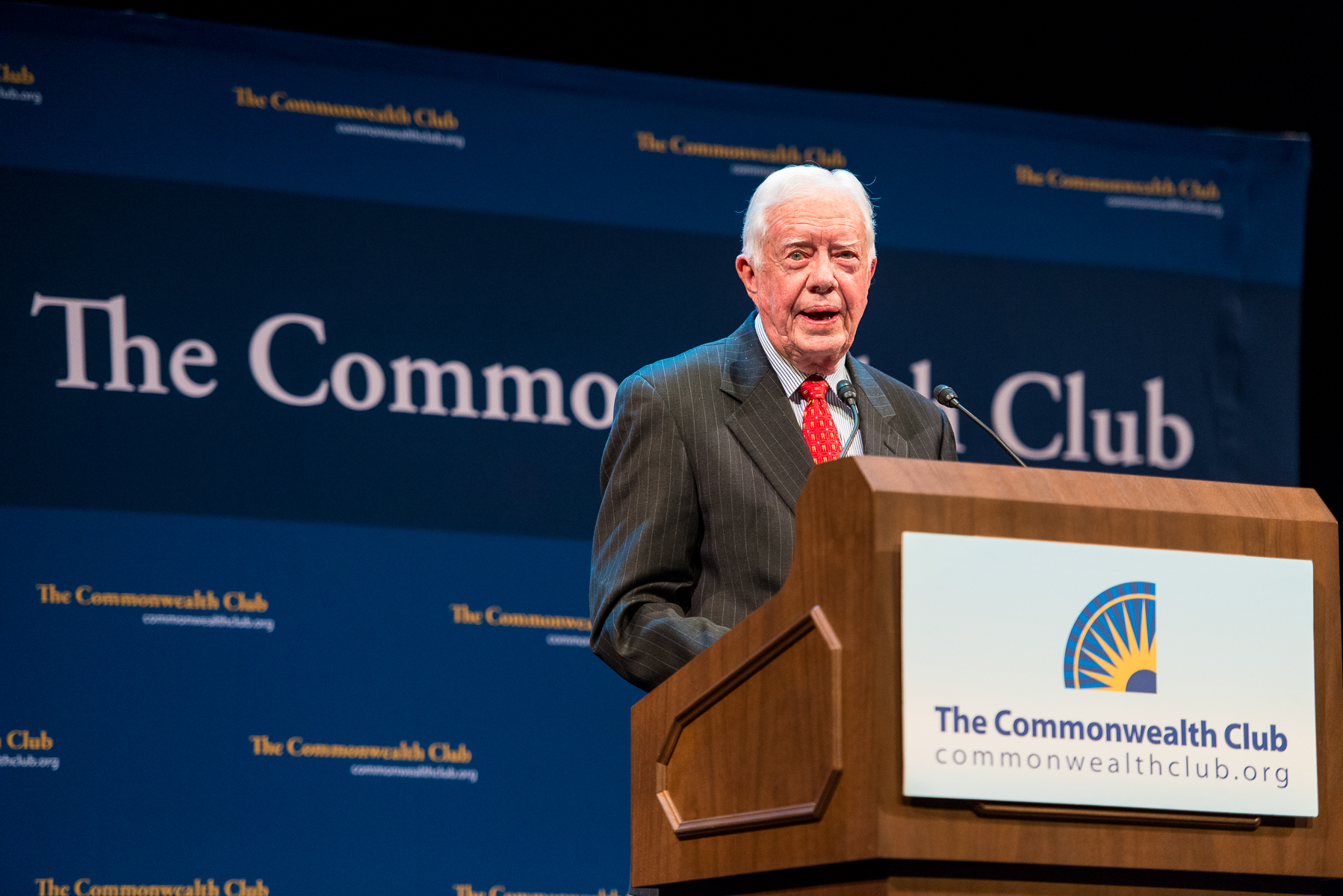 2013.02.24 RITGER_Jimmy Carter_036